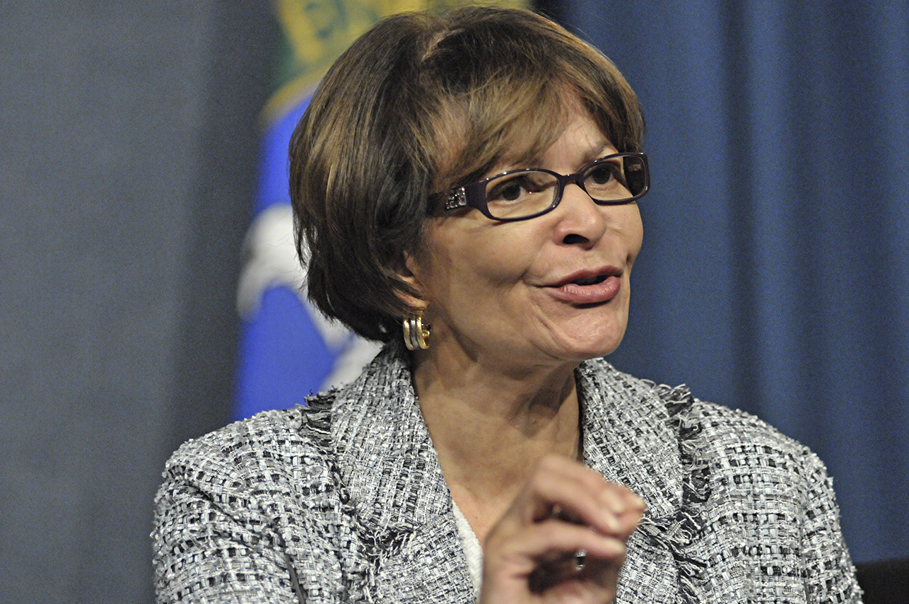 The Honorable Hazel O'Leary, former Secretary of Energy, speaks on September 24, 2013, at the Minorities in Energy Initiative Launch. Photo by DOE.